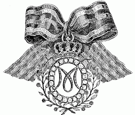 Order of Mathilde Mathilde Ordenen